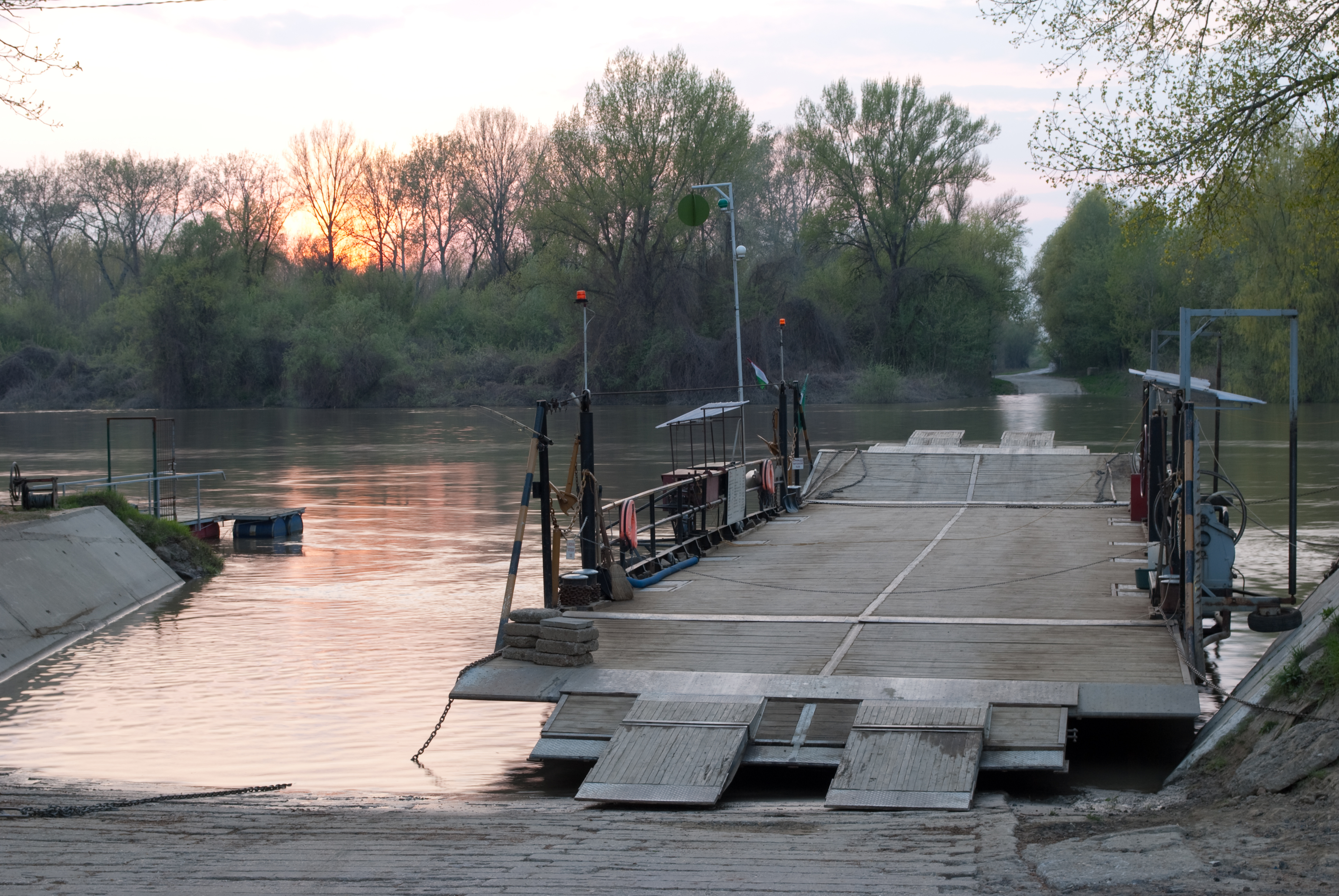 The cable ferry in Mindszent in the evening at sunset